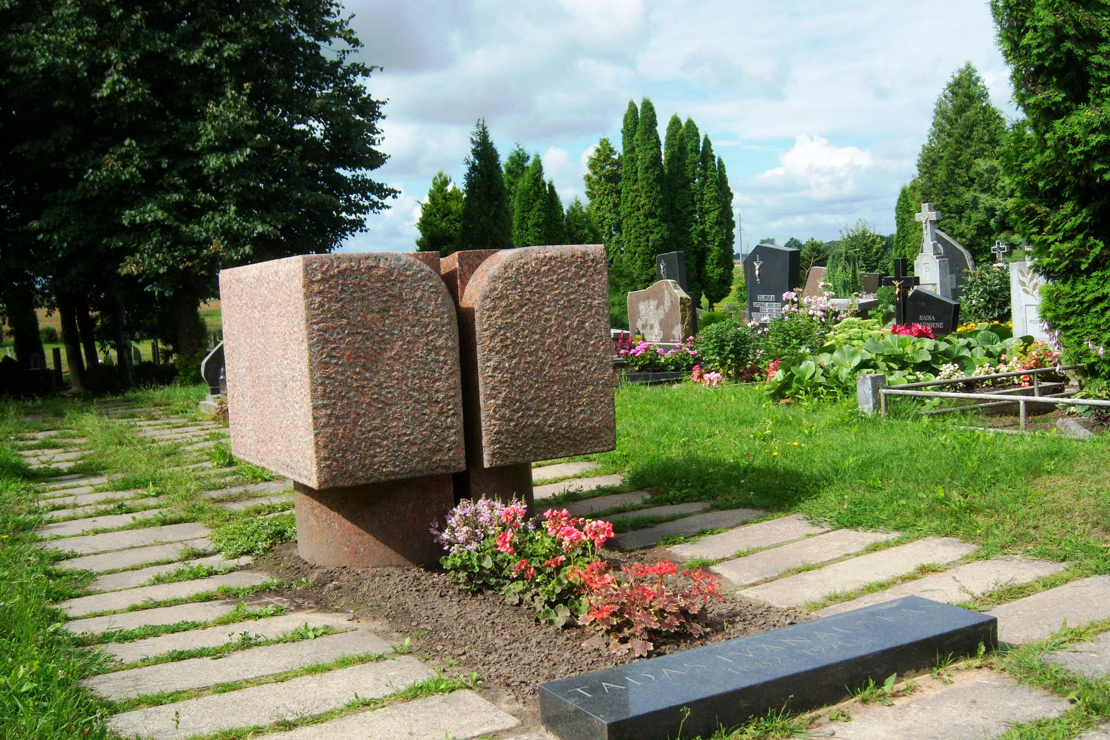 Gravestone of Tadas Ivanauskas, Tabariškiai cemetery, near Ringaudai, Kaunas district. Lithuania